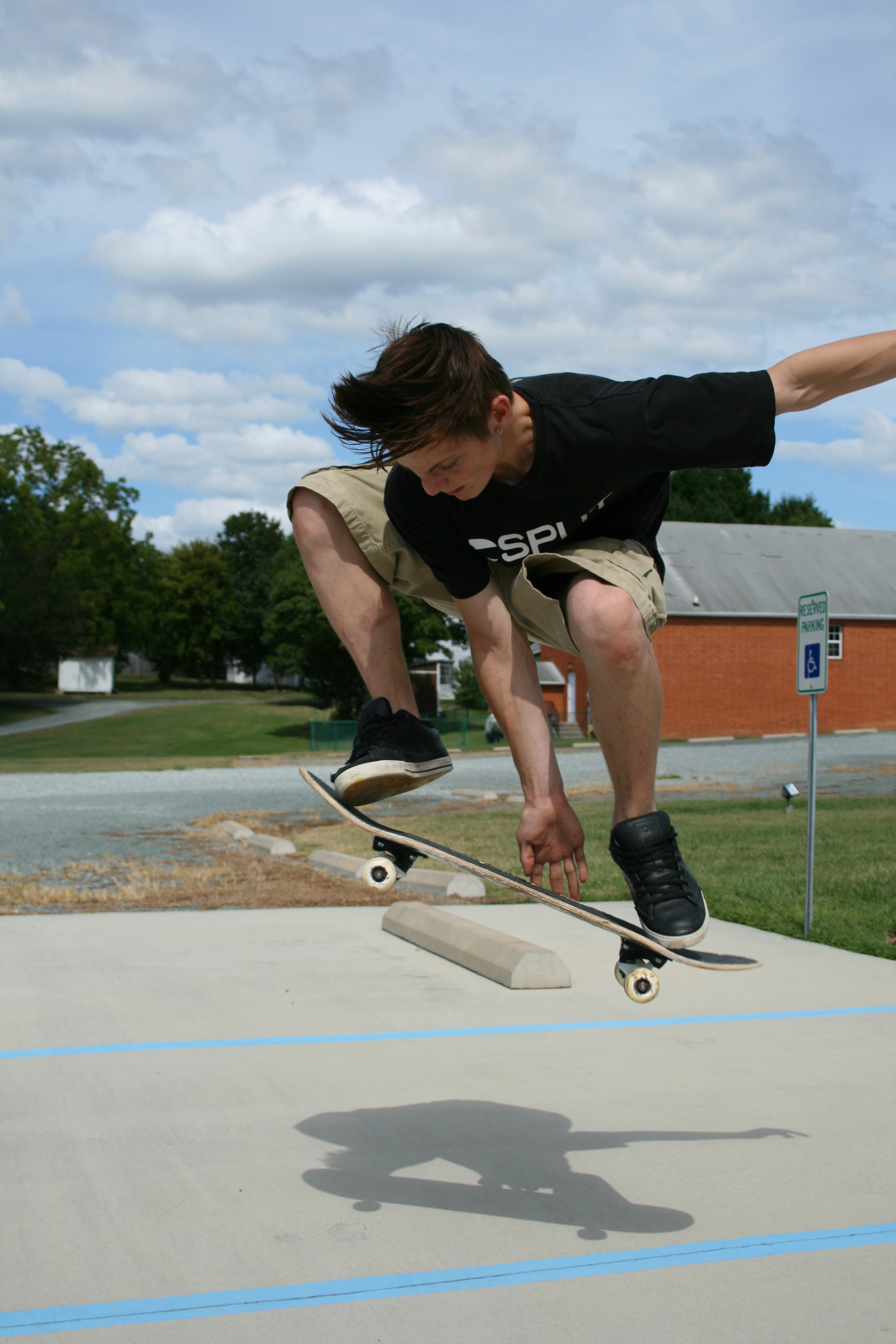 A skateboarder performing a roast beef grab in Swepsonville, North Carolina.